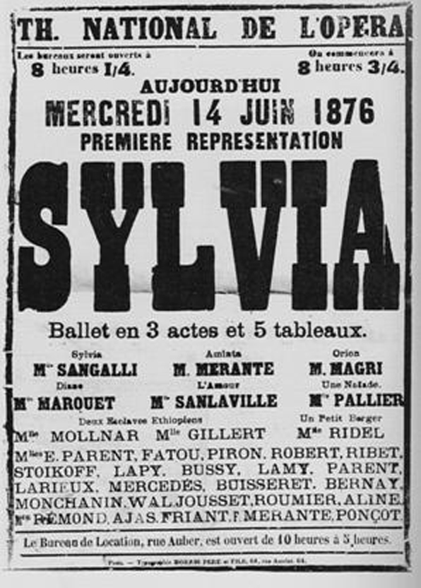 Advertisement for the premiere of Sylvia at the Opéra de Paris.